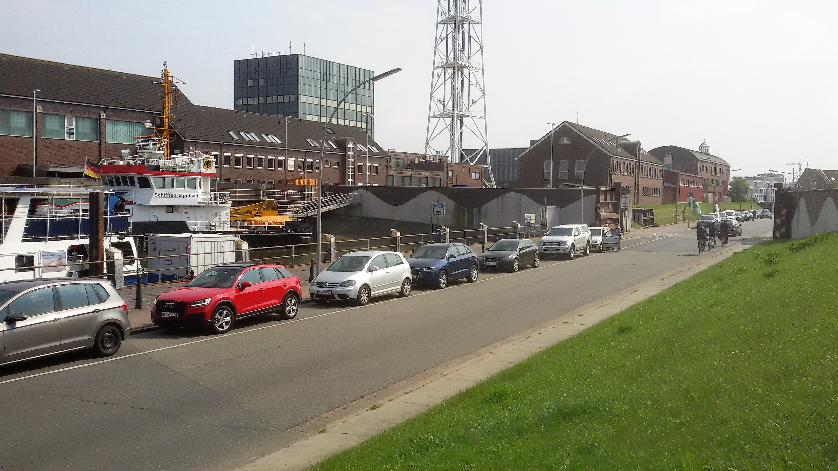 Wasserstraßen- und Schifffahrtsamt Cuxhaven - view from Ewerhafen